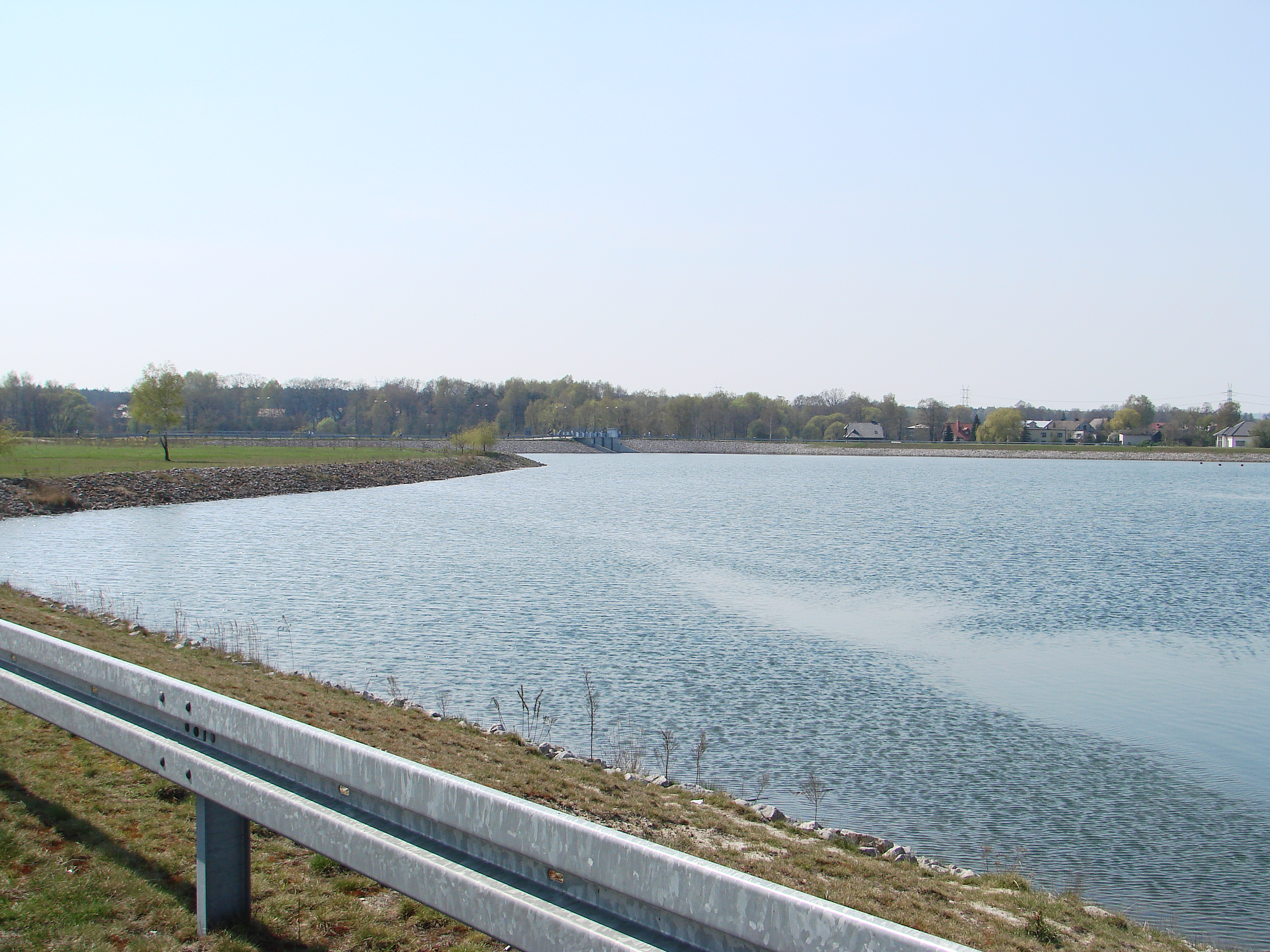 Kuznica Warezynska (Pogoria 4) water dam